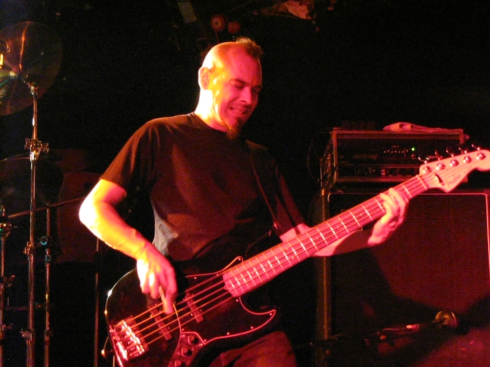 Joey Vera from Fates Warning at The Underworld in Camden, 2007-11-21.